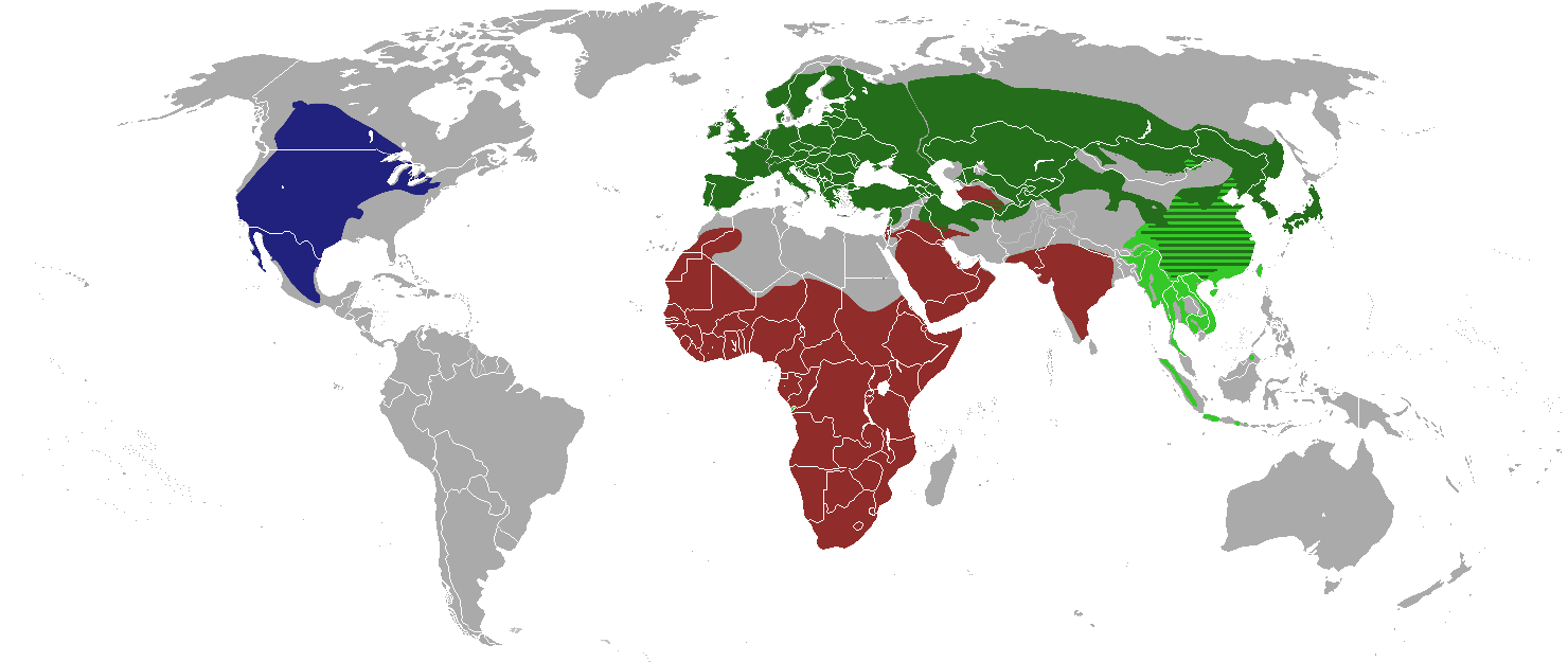 Shows ranges of all badger subfamilies (a polyphyletic taxon). Melinae, Mellivorinae, and Taxideinae. Dark Green: Meles sp. (Eurasian Badgers) Lime Green: Melogale sp. (Ferret-badgers) Blue: Taxidea taxus (American Badger) Red: Mellivora capensis (Honey Badger)